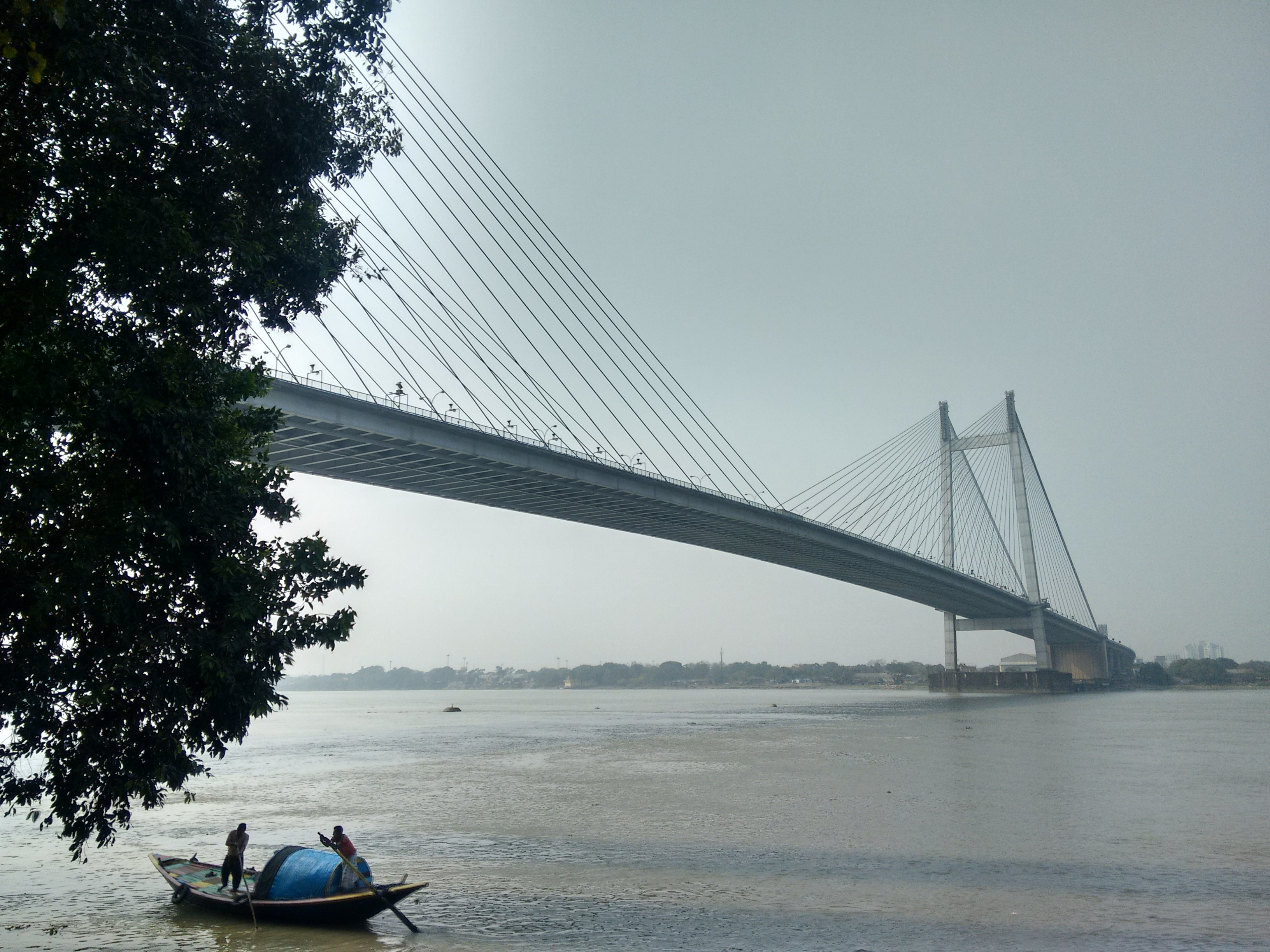 River view and Vidyasagar bridge in the background from Prinsep ghat